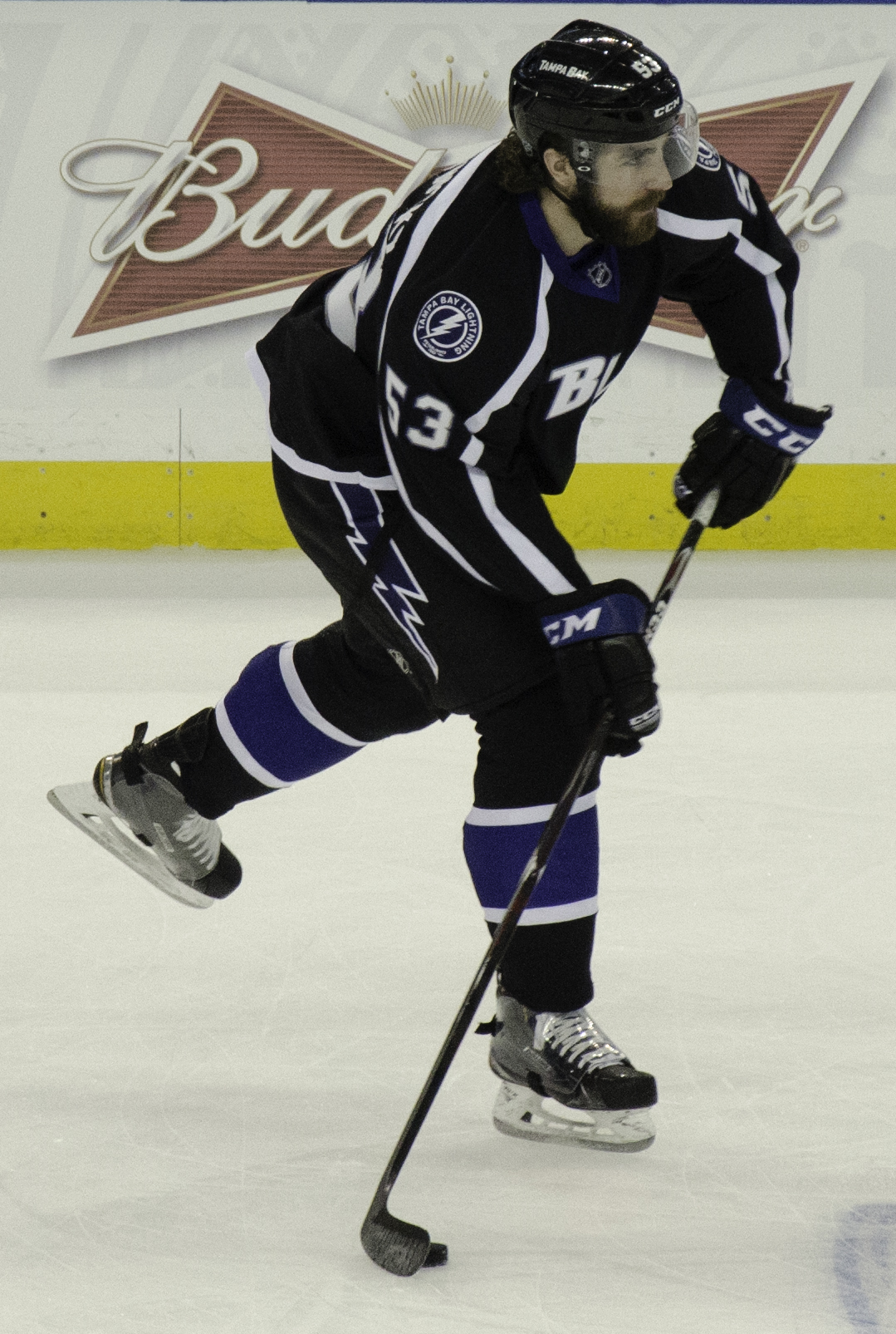 Luke Witkowski during a pre-game warmup during the Boston Bruins at Tampa Bay Lightning game 11 April 2015